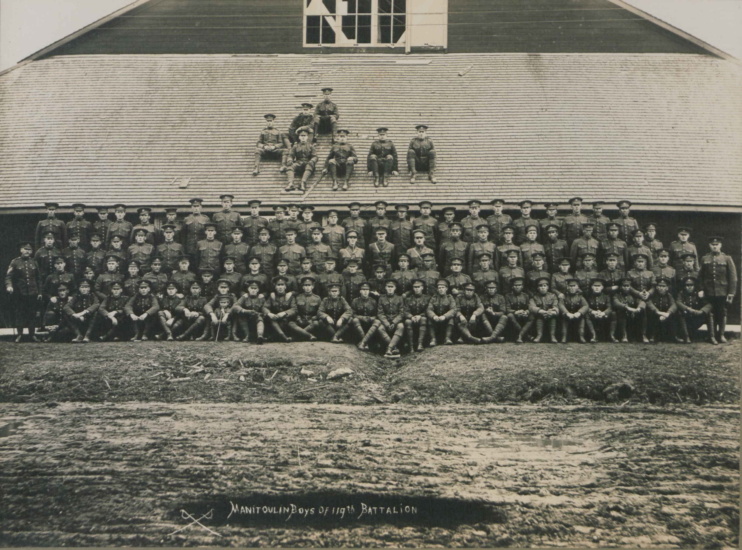 Original caption: “Manitoulin boys of 119th Battalion.”